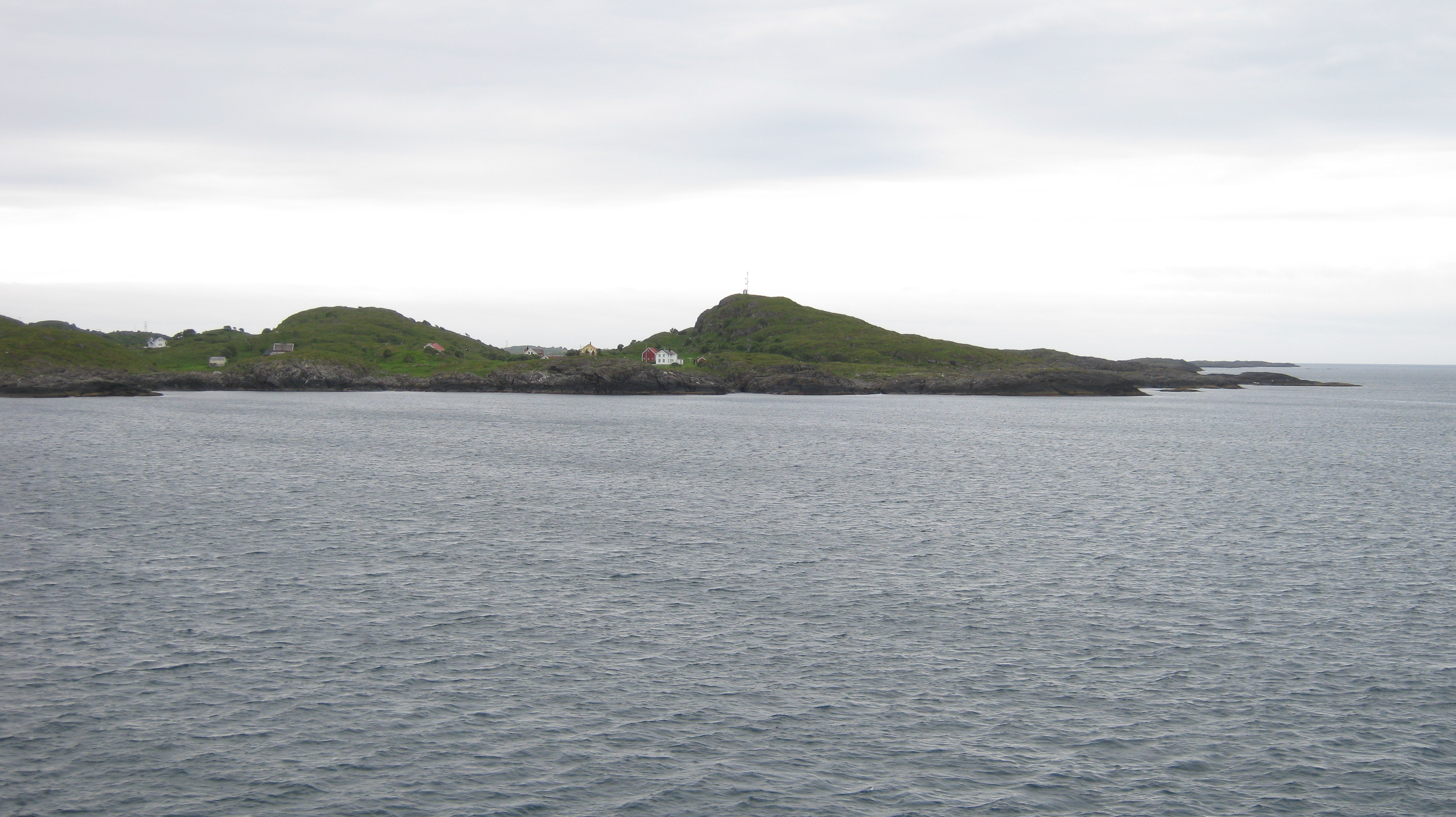 From the archipelago Helligvær, Bodø municipality, Nordland county, Norway